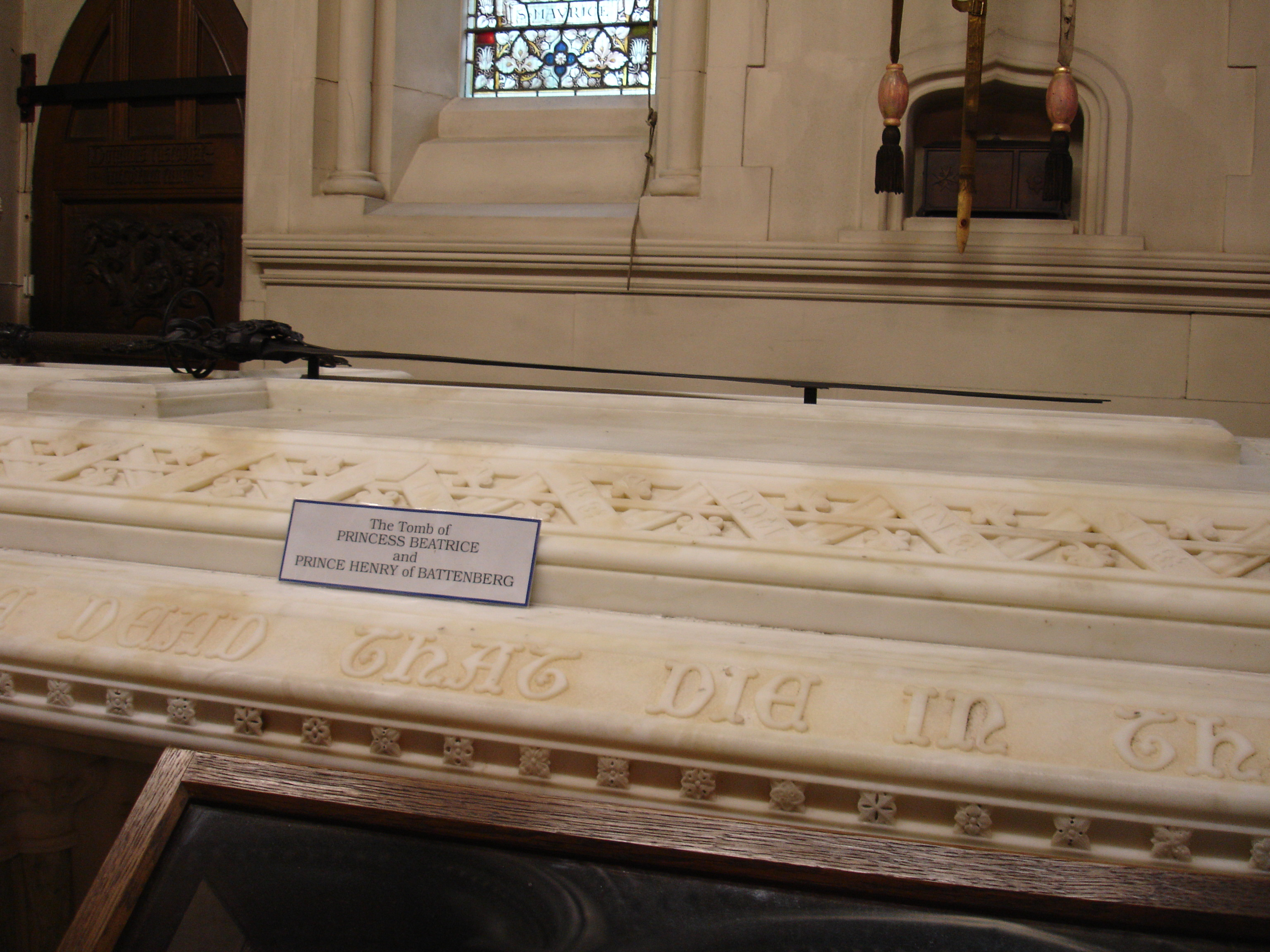 Photograph of the tomb of Princess Beatrice and Prince Henry of Battenberg, St Mildred's Church, Whippingham, Isle of Wight, England